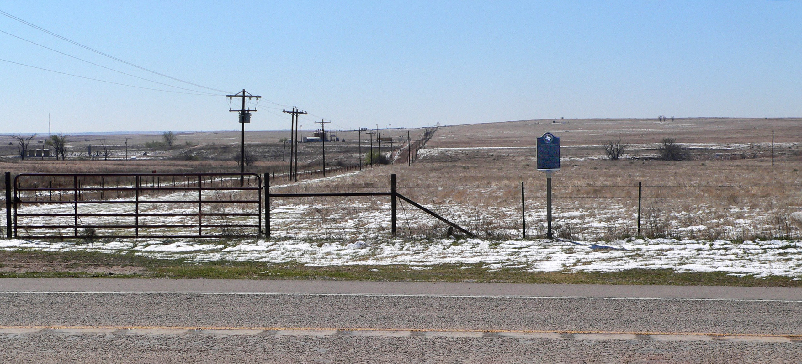 Historical marker commemorating Lyman's Wagon Train Battle; marker is located on south side of Texas Highway 33, near its junction with county road 18, in rural Hemphill County, Texas. The marker describes the battle as having taken place 2.5 miles south and 1.7 miles east.